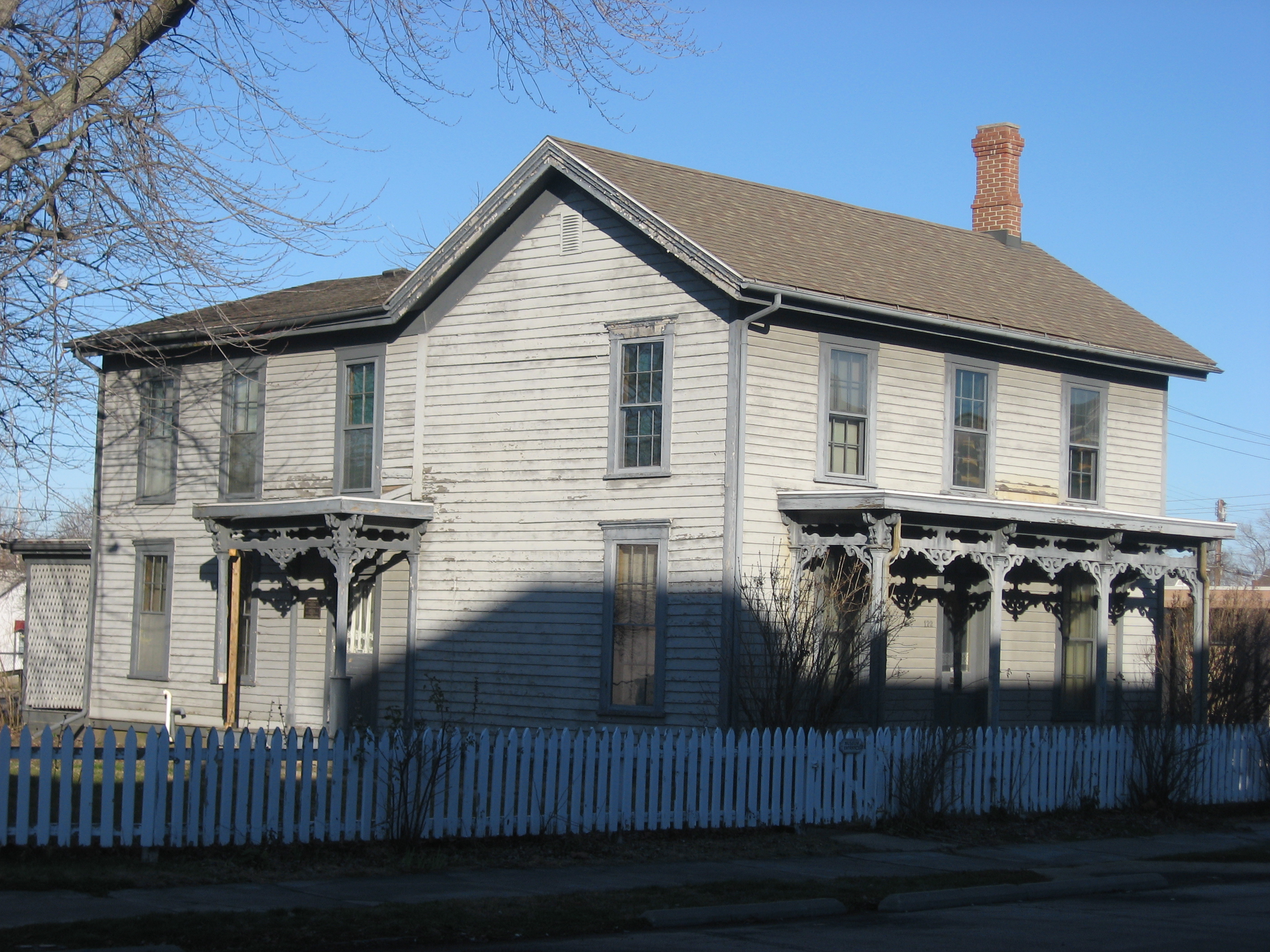 Front and western side of the Moore-Youse-Maxon House, located at 122 E. Washington Street in Muncie, Indiana, United States. Built in 1860 and since converted into a museum, it is listed on the National Register of Historic Places.